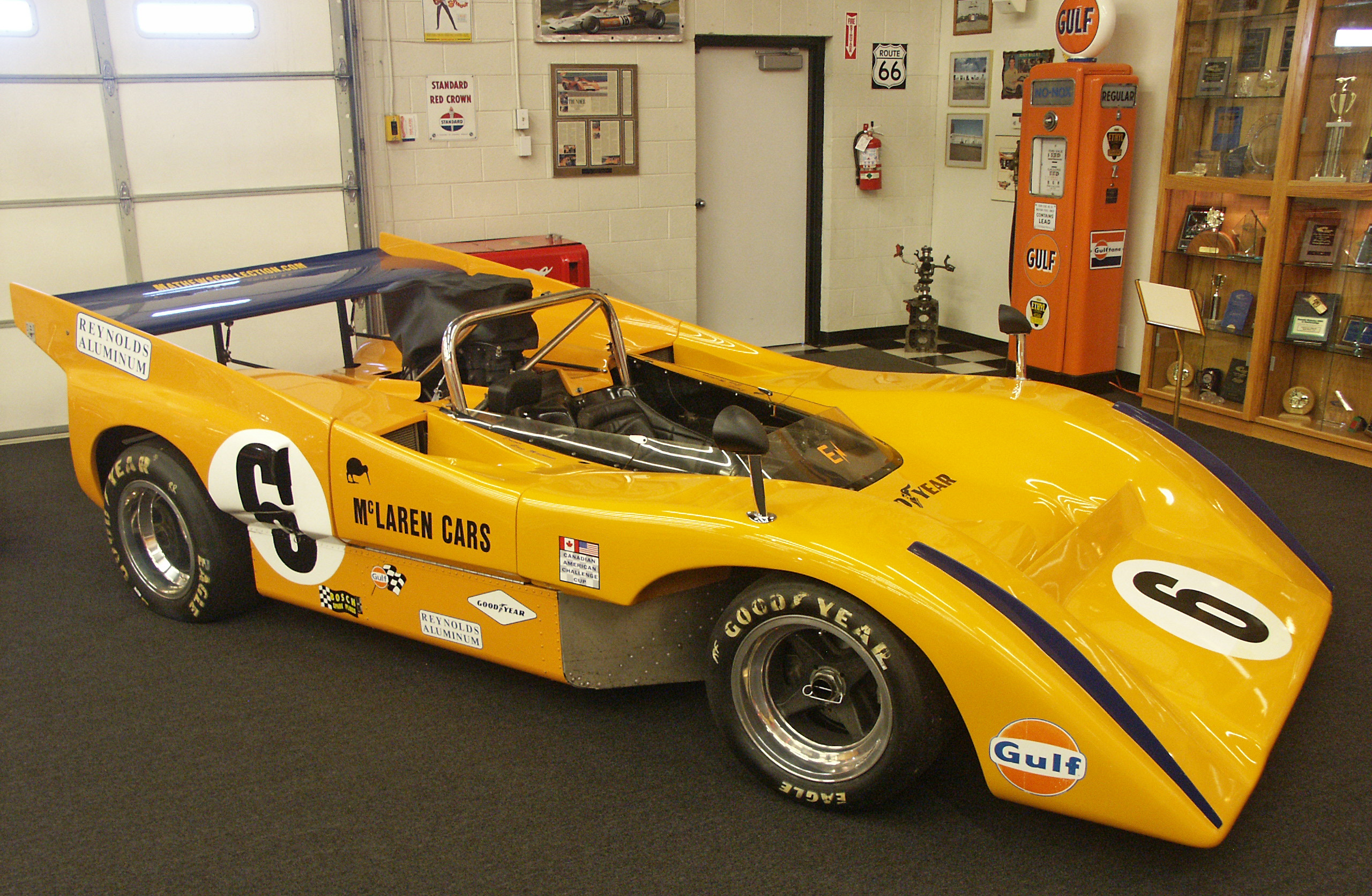 McLaren M8D Can-Am racing car at Mathews Collection, Arvada, Colo., USA.